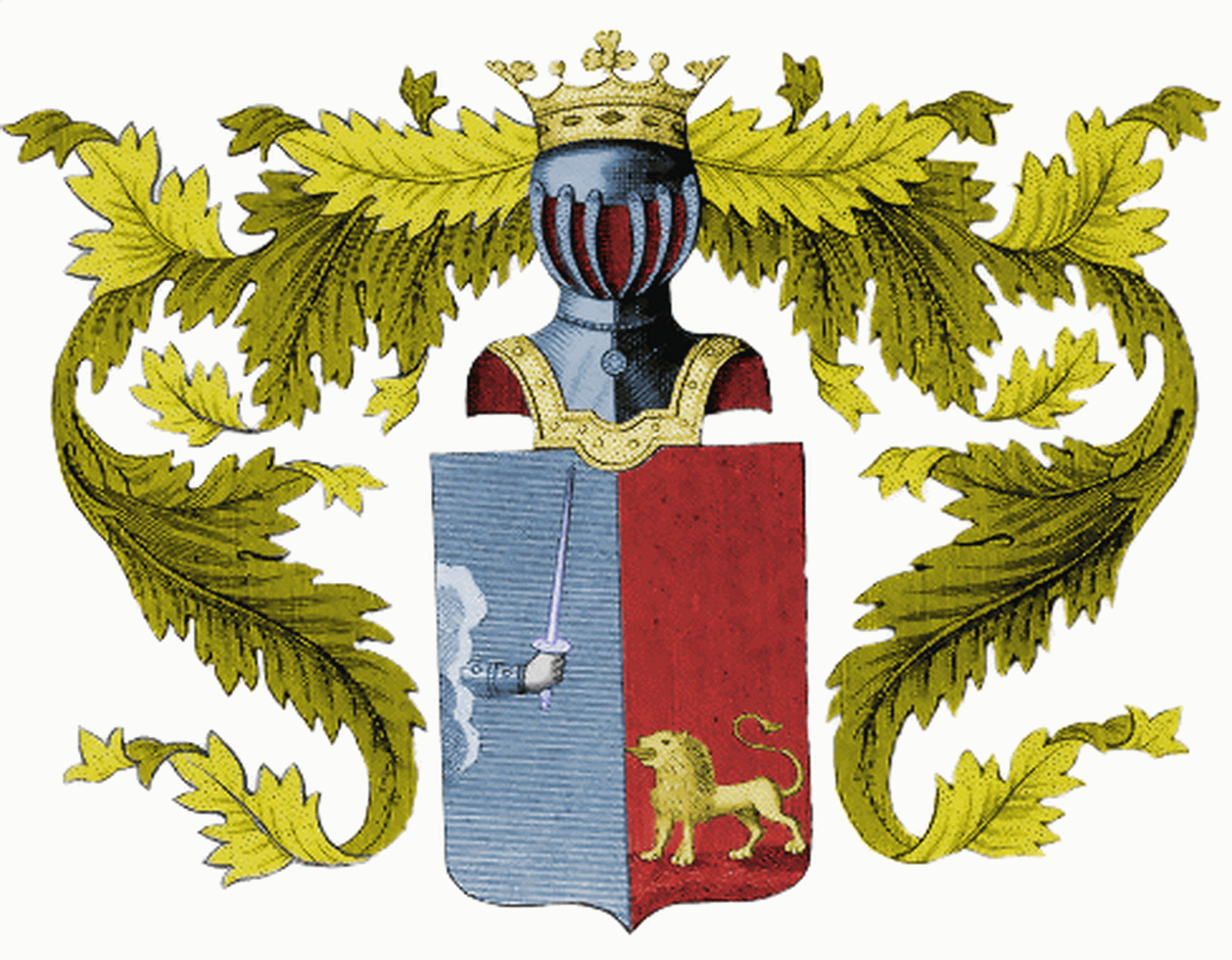 Coat of Arms of Suhotiny family